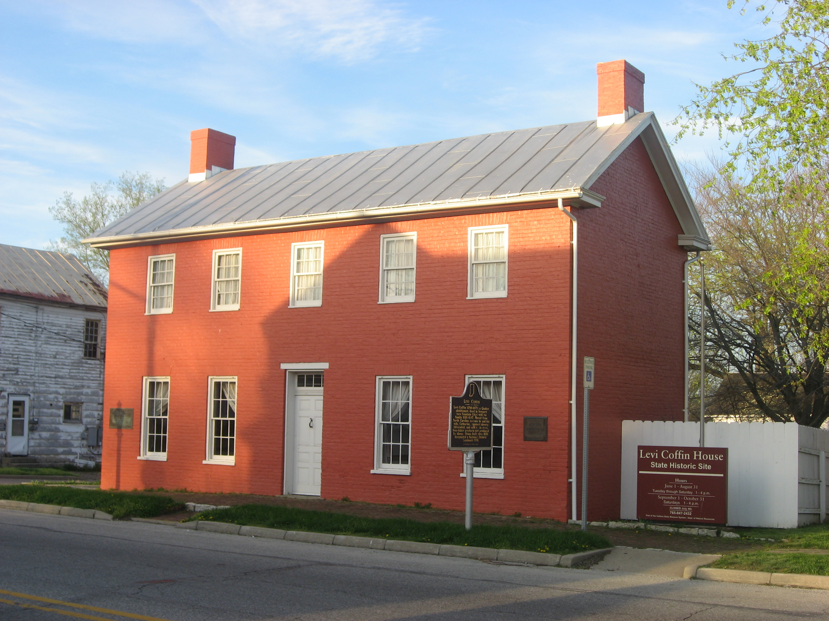 Front and southern side of the Levi Coffin House, located at 115 N. Main Street (U.S. Route 127) in Fountain City, Indiana, United States. Built in 1839 and a station on the Underground Railroad, it has been designated a National Historic Landmark.